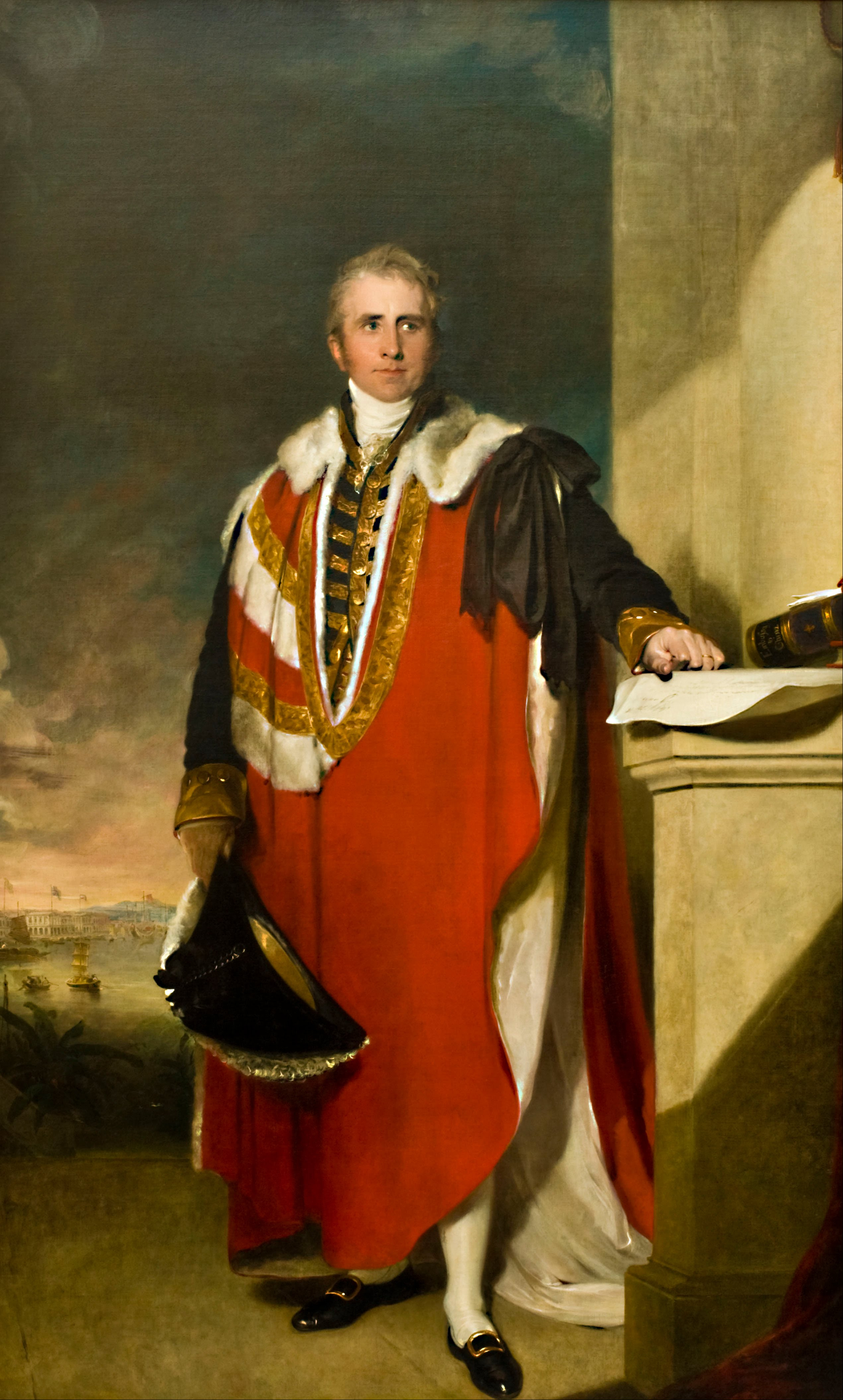 In 1816 Baron William Pitt Amherst (1773–1857) led a diplomatic mission to China to negotiate better trading terms for the British East India Company. This grand portrait by Thomas Lawrence, the leading English portraitist of the day, shows Amherst standing before the Canton harbor and the trading warehouses of Britain, the Netherlands, and the United States. The book near his hand is the 1817 publication of the journal of his diplomatic journey. Amherst’s mission was a failure. He signaled that he would refuse to kowtow (kòu tóu)—the traditional act of reverence before the Chinese emperor, which involved kneeling and bowing low to the ground—unless the Chinese officials would show similar deference to a portrait of the British king. Affronted, Emperor Jiaqing sent Amherst and his embassy home without meeting with them. Back at home Amherst was admired for his actions, which were seen as upholding British honor. This portrait, in fact, was commissioned to hang in the British East India Company’s office in Canton. The full-length format, imposing column, and Amherst’s determined expression and official ambassadorial robes all express solemn ceremony, resolve, and dignity.